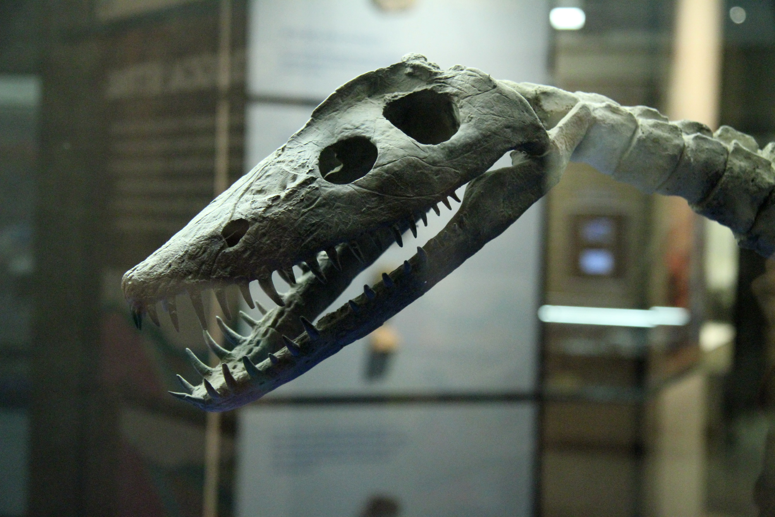 The Canadian Fossil Discovery Centre in Morden boasts the largest collection of marine invertebrate fossils in Canada. Visitors to the museum not only get to see this collection, but can join a dig in search for more fossils at a 109-acre escarpment property. Photo credit: Robyn Hanson